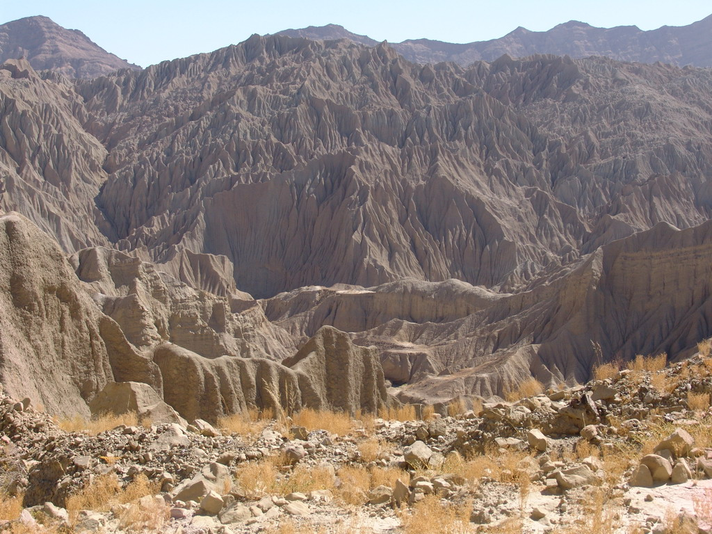 Landscape of Beautiful Balochistan, Pakistan